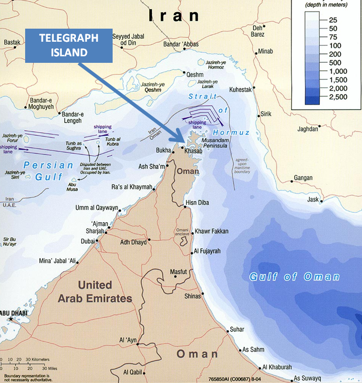 The map has been modified to include label "Telegraph Island" and arrow point to its location